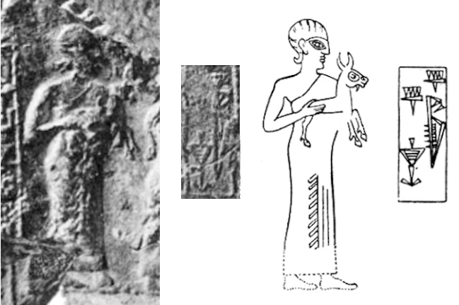 Lugal-ushumgal, ensi of Lagash, circa 2200 BCE